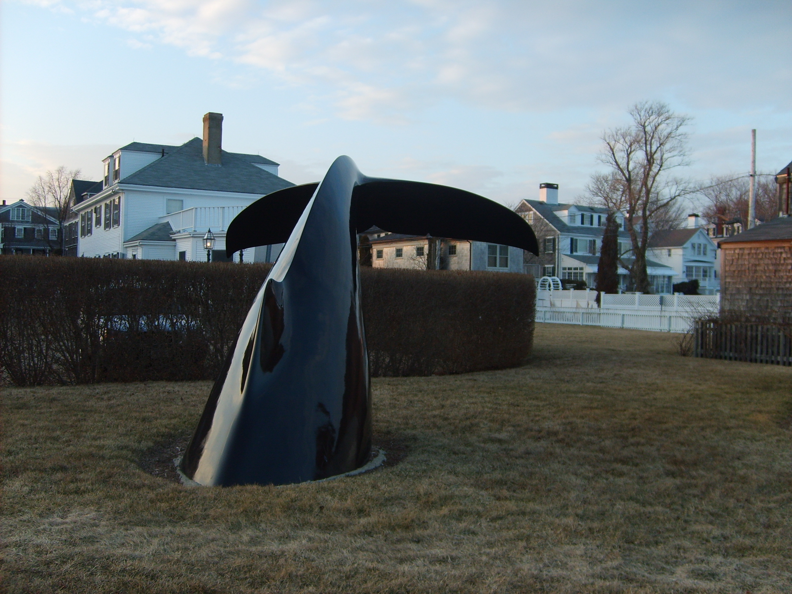 Photo of the Whale Tale Sculpture in Edgartown, MA